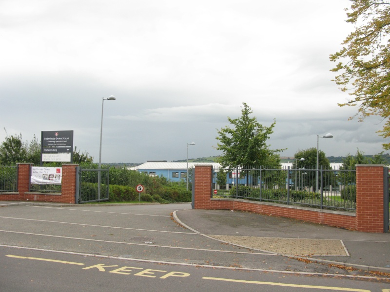 Bedminster Down School, Bristol, from Donald Road. ST5669 :: Bedminster Down School, Bristol, from Donald Road, near to Bishopsworth, Bristol, Great Britain